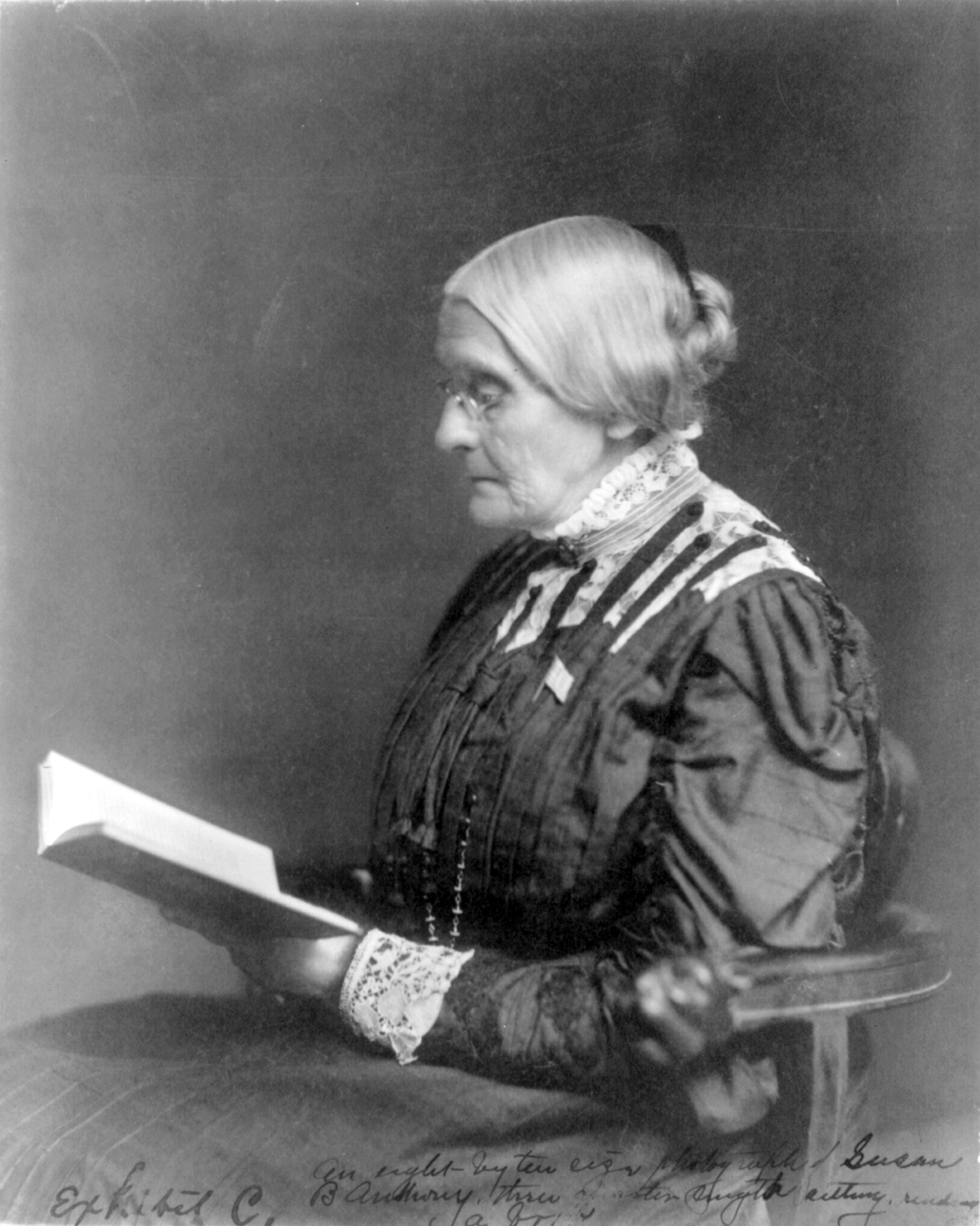 Susan B. Anthony, seated, facing left, reading.